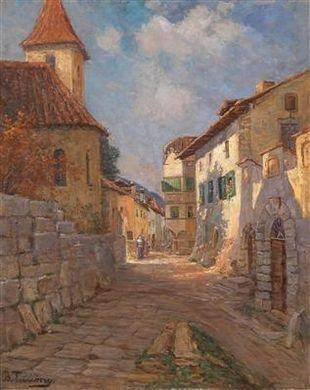 Street in Rattenberg, by the Inn